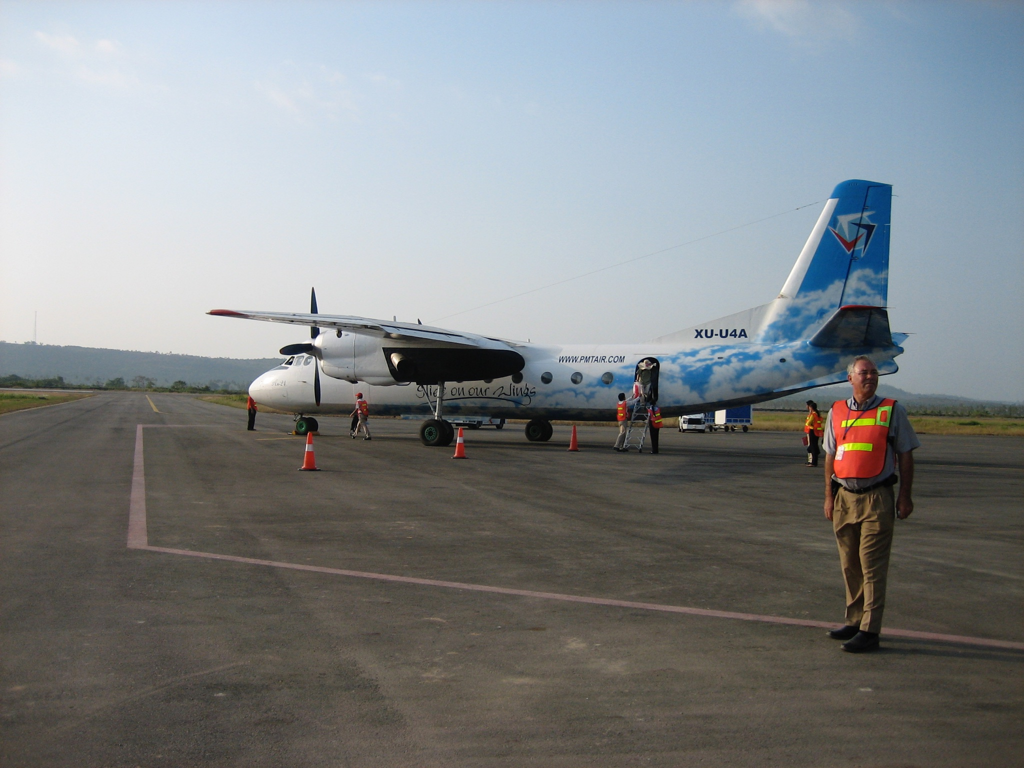 PMTAir Antonov An-24 with tail number XU-U4A at Sianoukville International Airport. Taken Jan 2007 after what was one of the first flights after the reopening of the airport. Five months later, on 25 June 2007, this plane tragically crashed near Bokor while on approach to Sihanoukville.